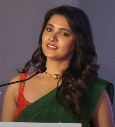 Actress Vani Bhojan during Amudha Surabhi Launch Event